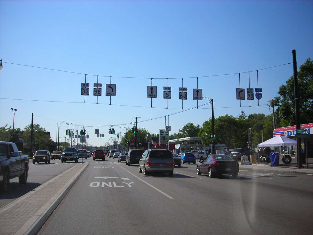 Westbound on Main Street at New York State Route 98 in Batavia. New York State Route 33 leaves Main Street here, while New York State Route 5 and New York State Route 63 continue straight on Main Street.